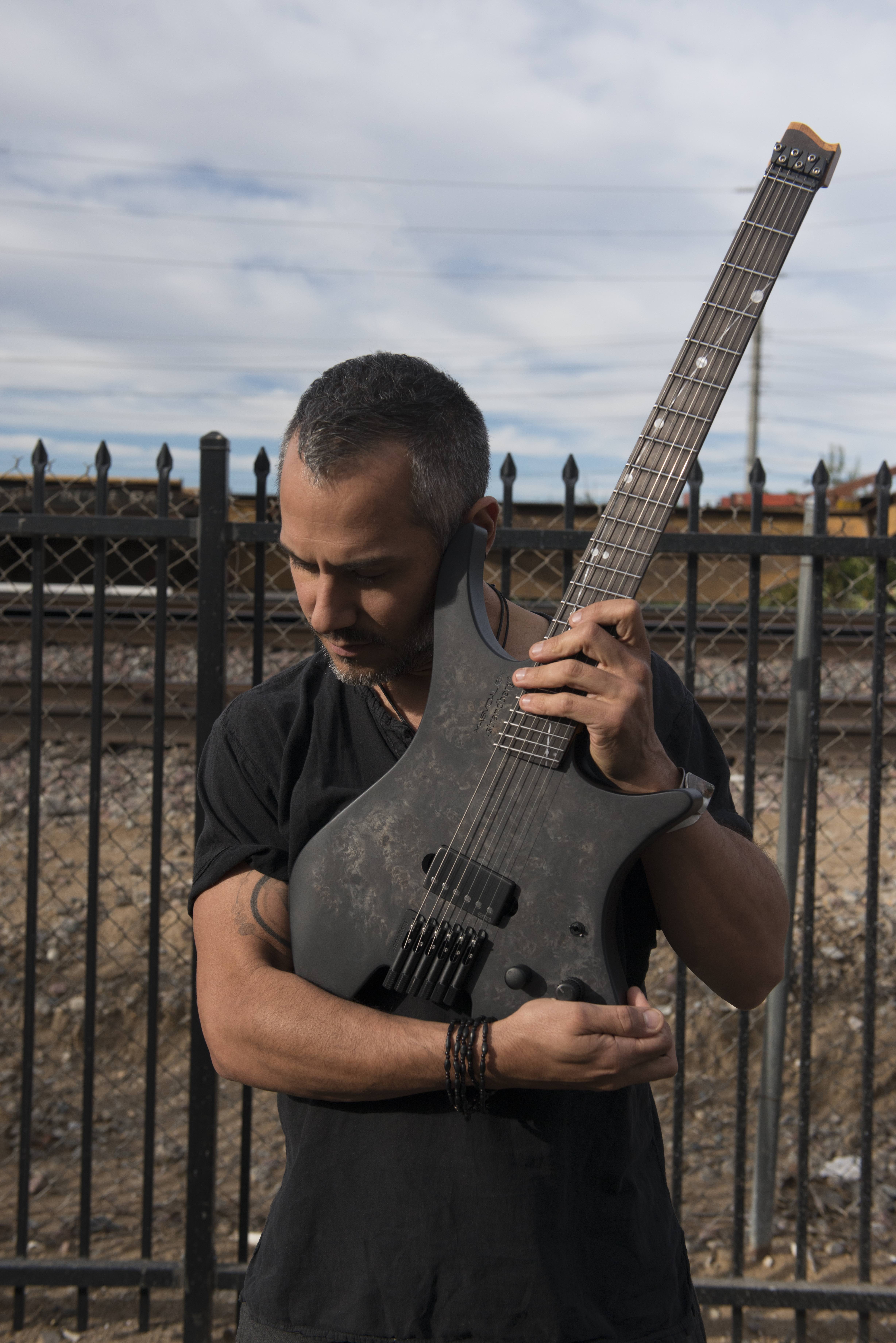 Latest click with the Masvidalien Cosmo